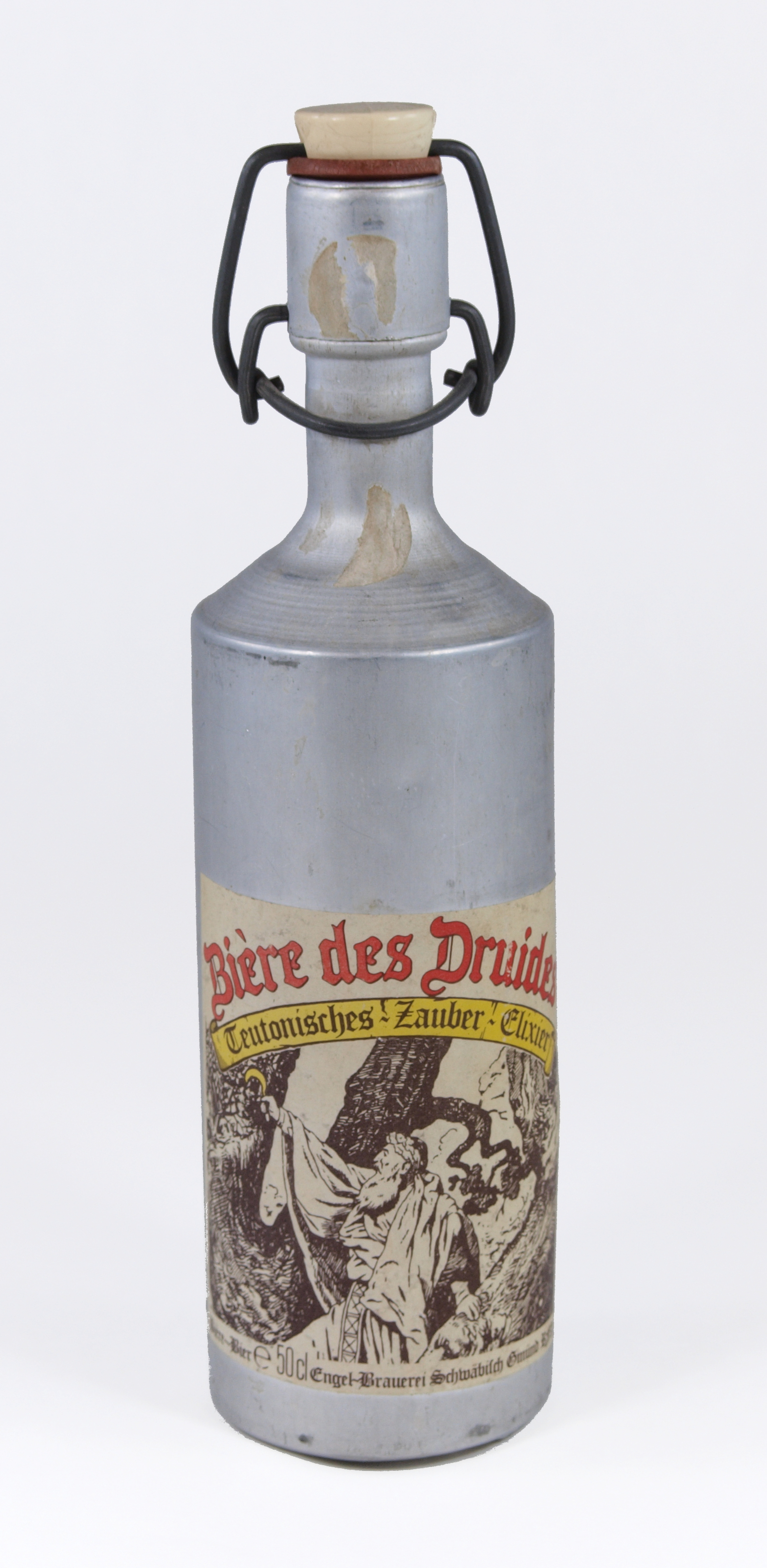 Bière des Druides of Brewery Engel-Brauerei Schwäbisch-Gmünd, Germany in a 0,5 l aluminium bottle with a traditional stopper swing (swing top cap). Dated before 2001. From HamburgMuseum without aquisition number.